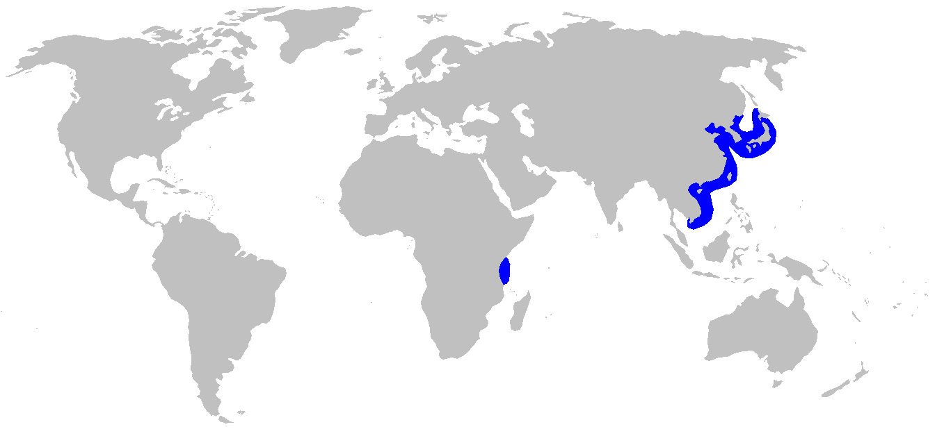 Distribution map for Mustelus manazo